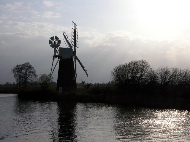 Photo by Chris Kirk